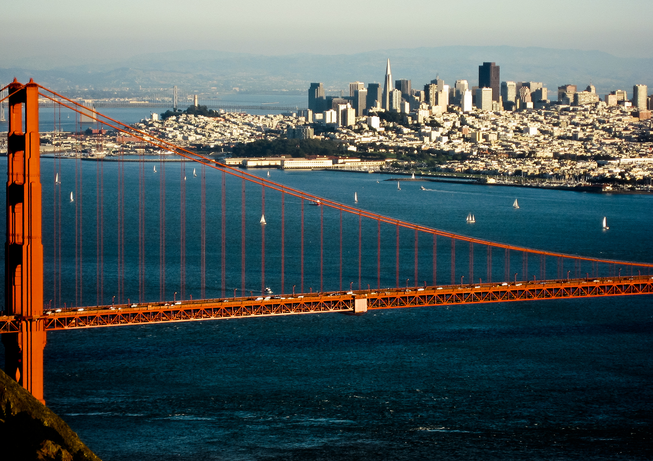 San Francisco from Marin Headlands